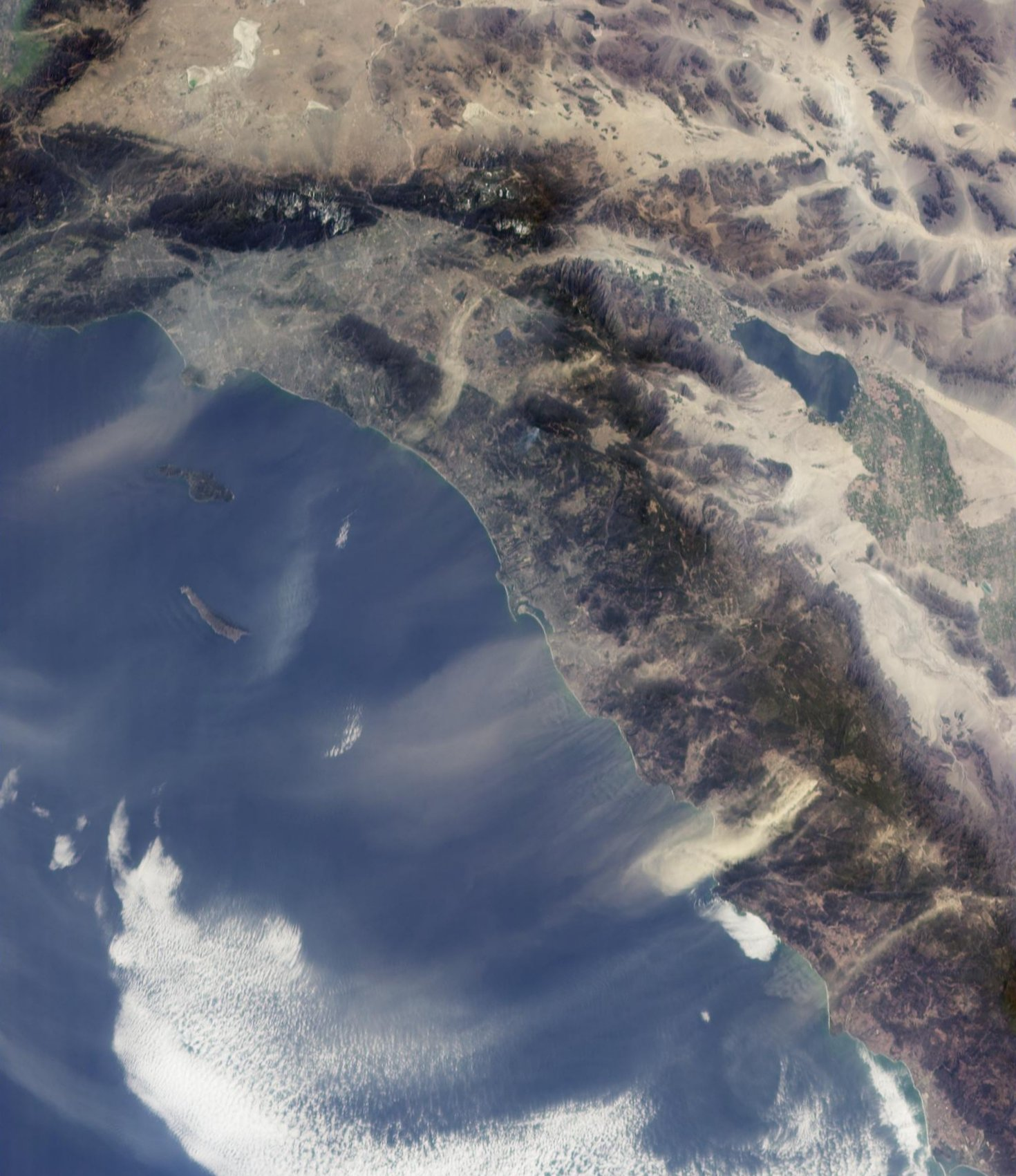 The Santa Ana winds in Southern California sweep down across the deserts and across the Los Angeles Basin pushing dust and smoke from wildfires far out into the Pacific Ocean. This view from the Multi-angle Imaging SpectroRadiometer shows the pattern of airborne dust stirred up by Santa Ana winds on February 9, 2002. The image is from MISR's 70-degree forward-viewing camera, and airborne particulates are especially visible due to the camera's oblique viewing angle. Southeast of the Los Angeles Basin, a swirl of dust, probably blown through the Banning Pass, curves toward the ocean near Dana Point. The largest dust cloud occurs near Ensenada, in Baja California, Mexico. Also visible in this image is a blue-gray smoke plume from a small fire located near the southern flank of Palomar Mountain in Southern California. This image was acquired during Terra orbit 11423, and represents an area of about 410 kilometers x 511 kilometers.